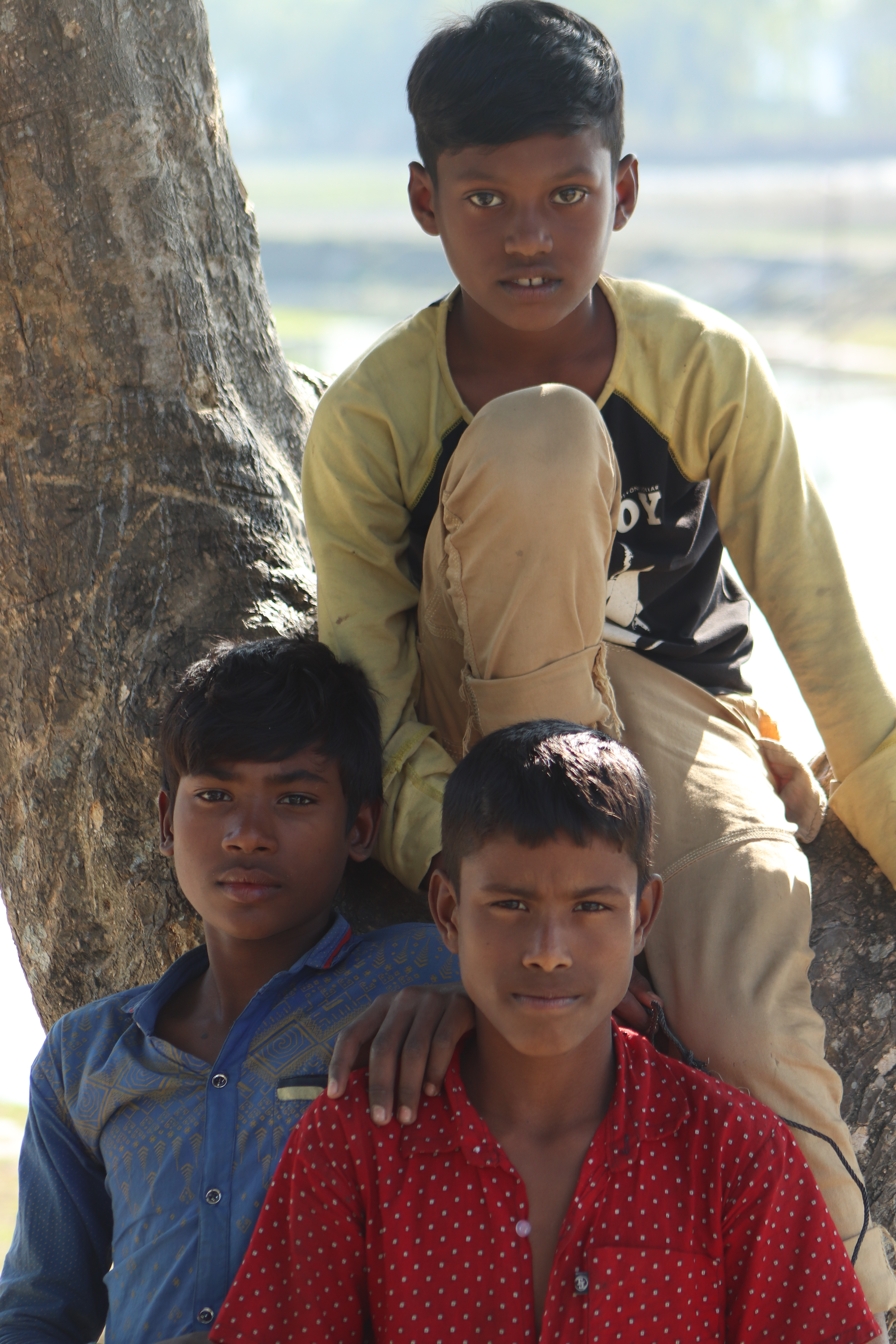 A photo of rural boys who are usually spend their daytime outside home, gossiping and with others.